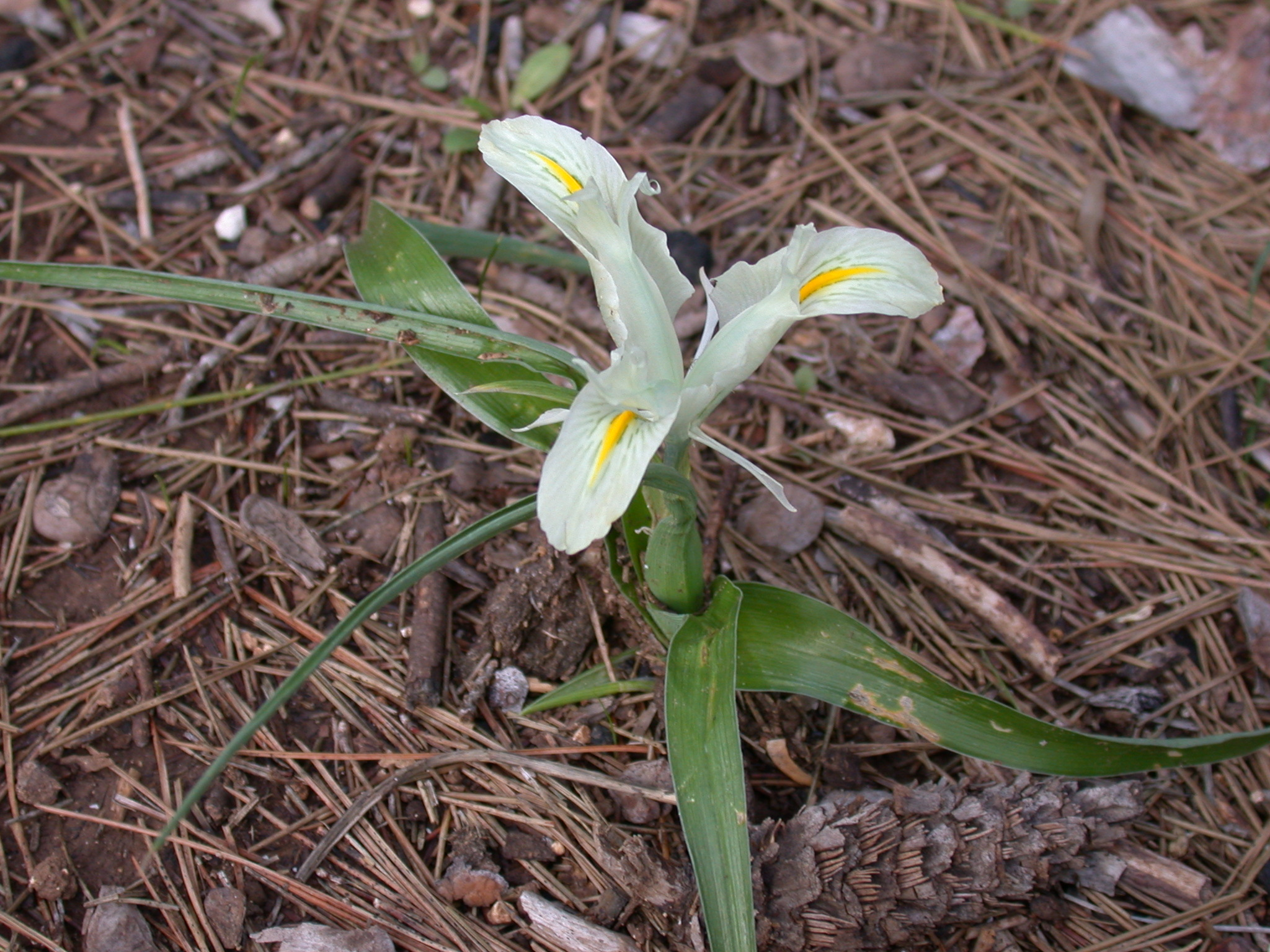 Iris palaestina (Baker) Boiss. (אירוס ארצישראלי), Mount Carmel, Israel, December 30, 2005.